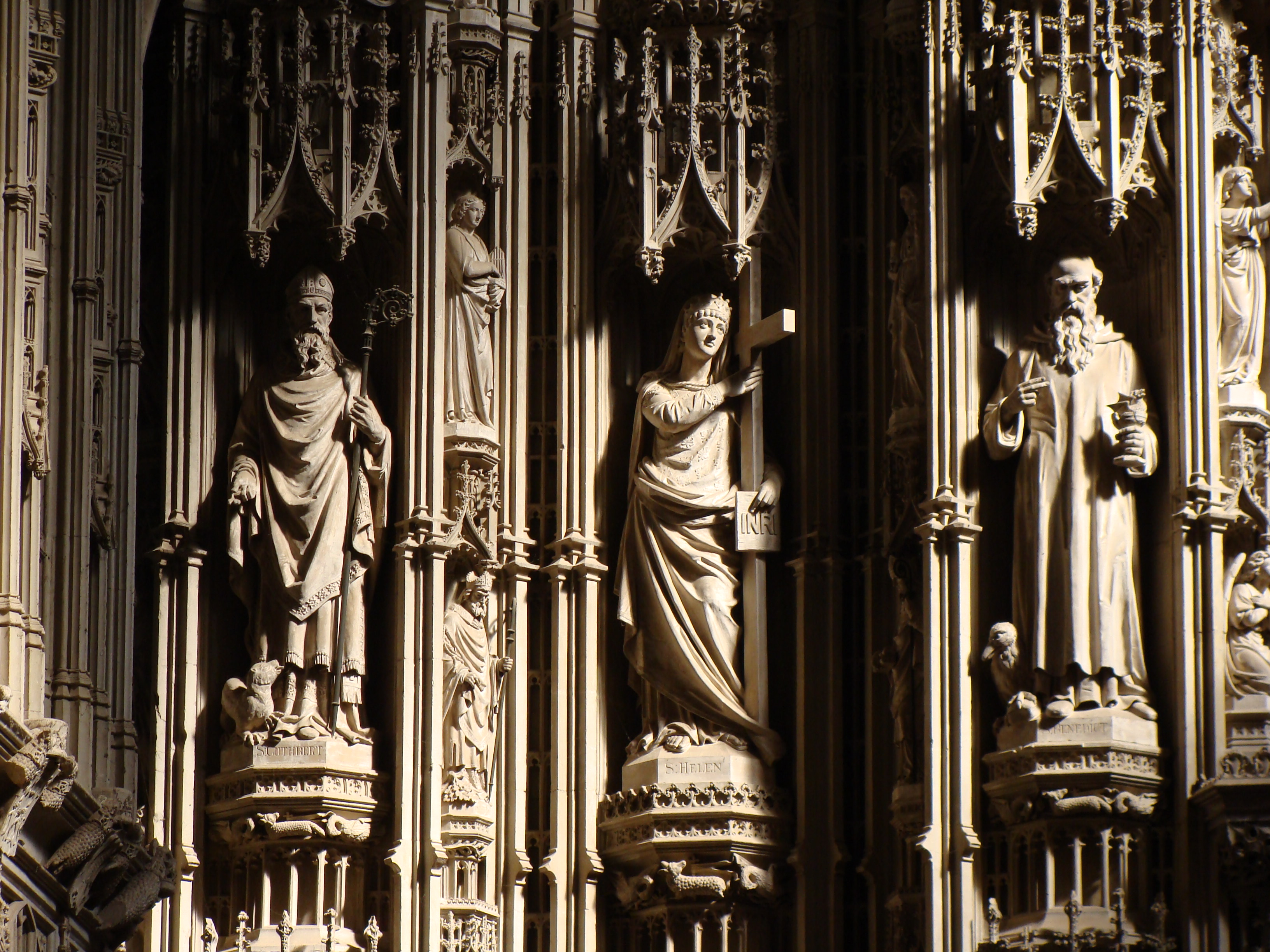 The altar in the Cathedral and Abbey Church of St Alban, St Albans, Hertfordshire, UK